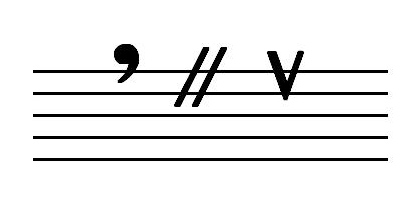 caesura, own work, 2012.